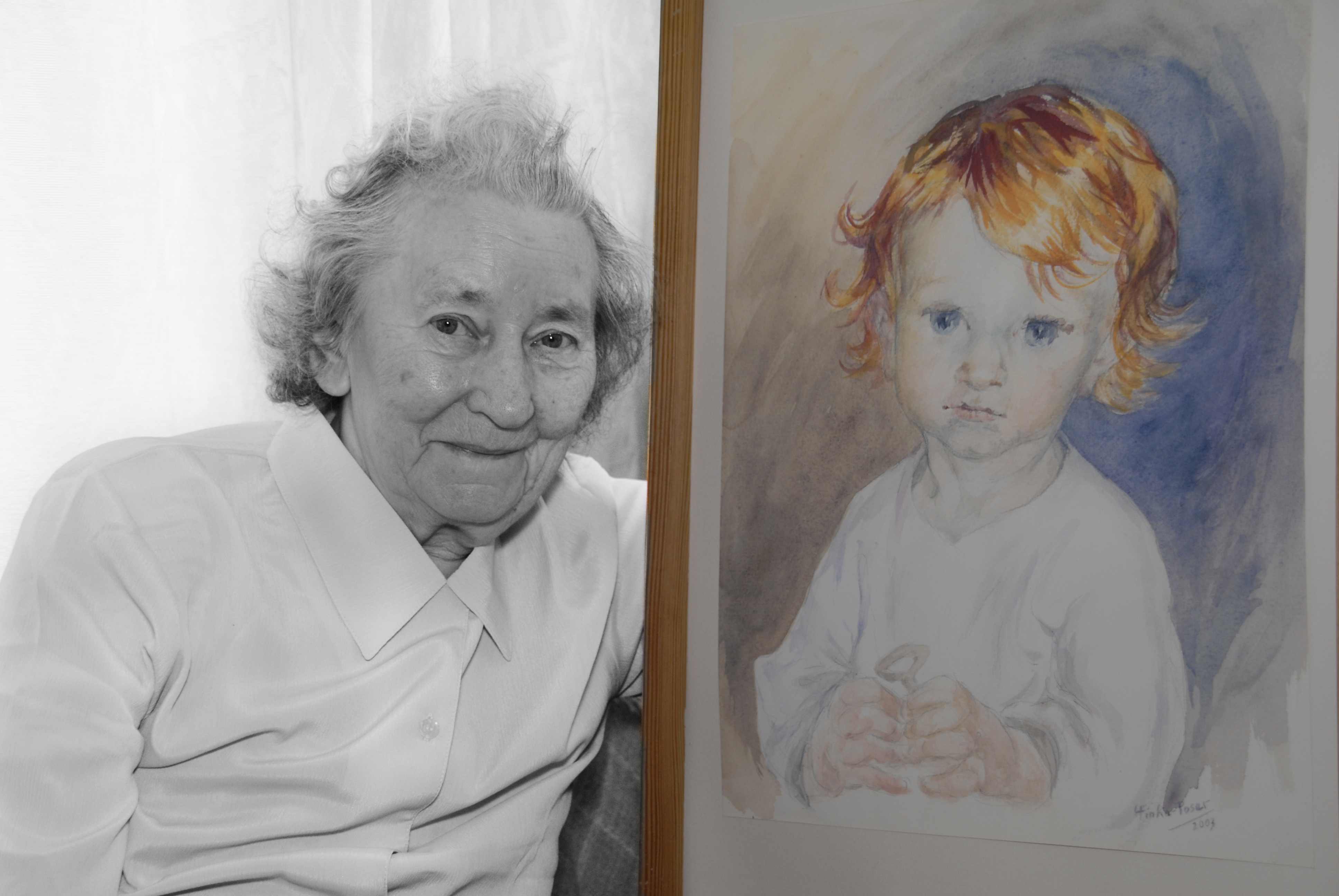 Lieselotte Finke-Poser, German painter and graphic artist, Radebeul